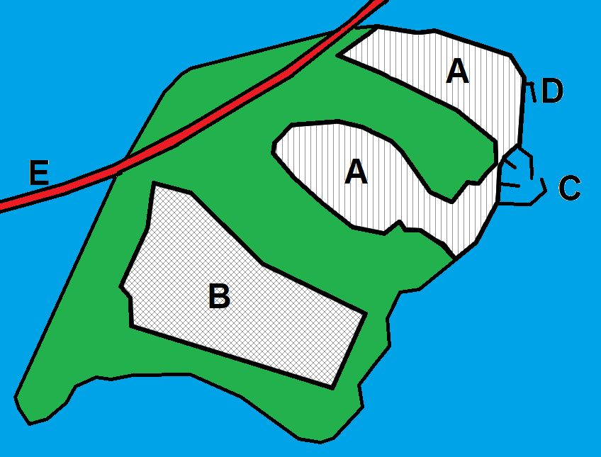 Beigang Island map A: VillagesB: Fish farmsC: New harborD: Ferry terminalE: Puqian Bridge